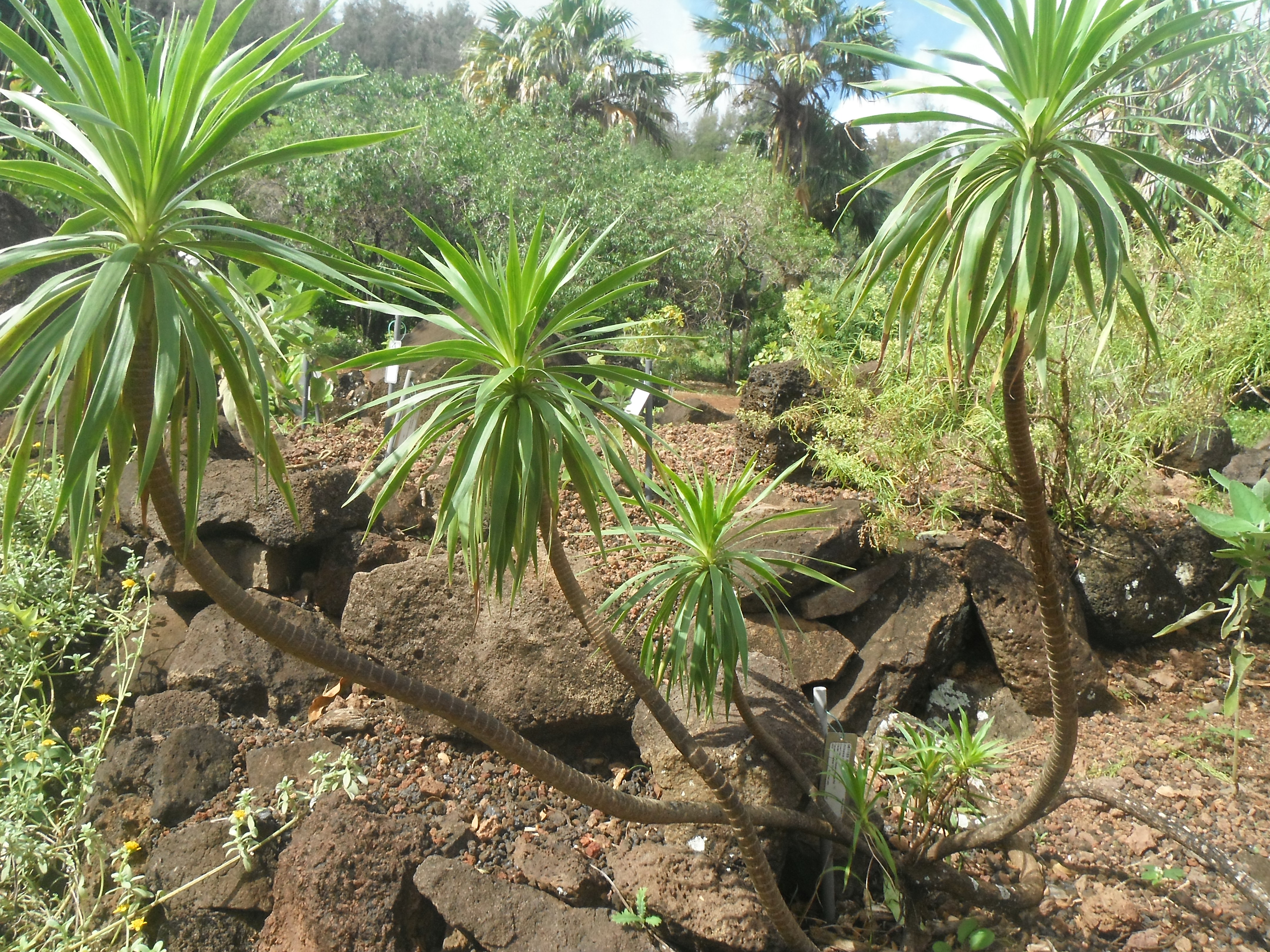 Taken at the National Tropical Botanical Garden in Kauai, 2012.